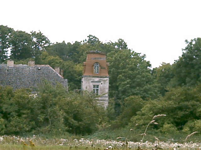 Country house